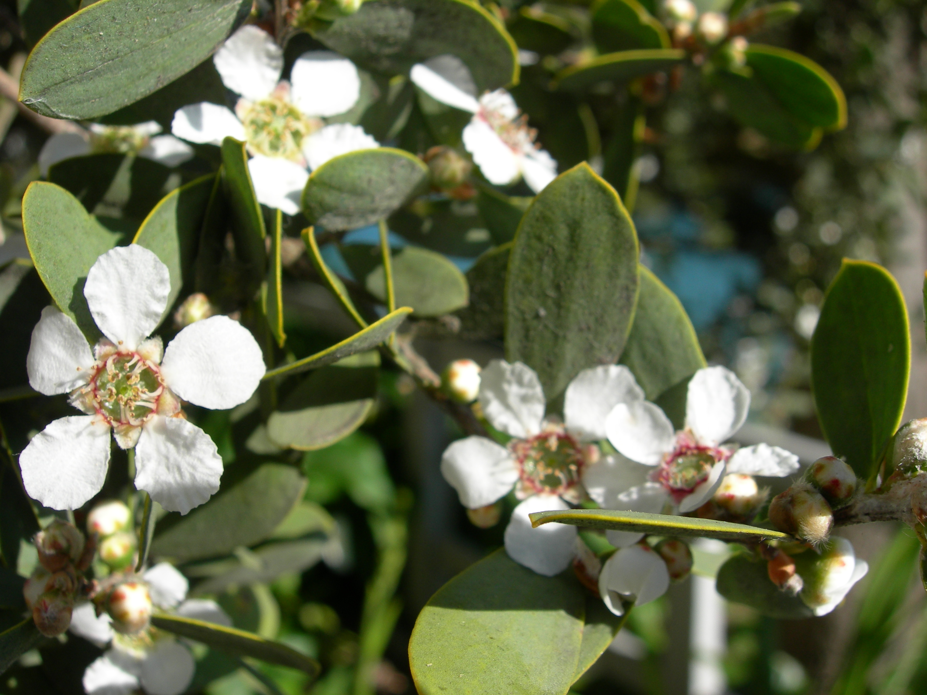 Leptospermum laevigatum cultivated at Alcatraz, San Francisco Bay Area, California, USA. NPS photo, no copyright.